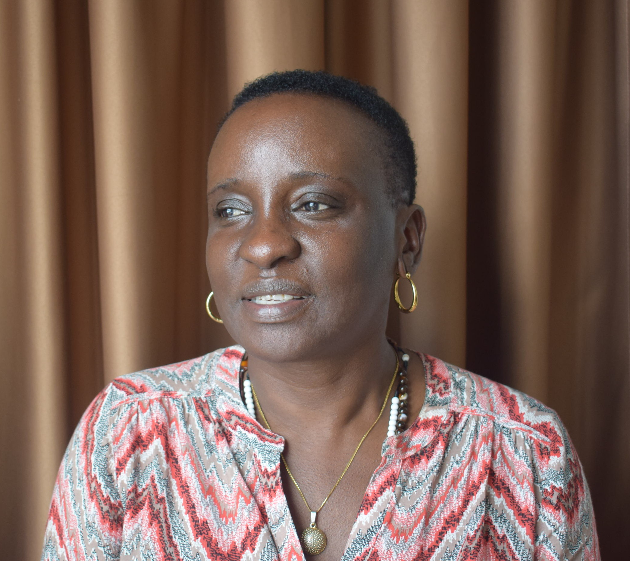 Portrait photo of Lilian Mary Nabulime